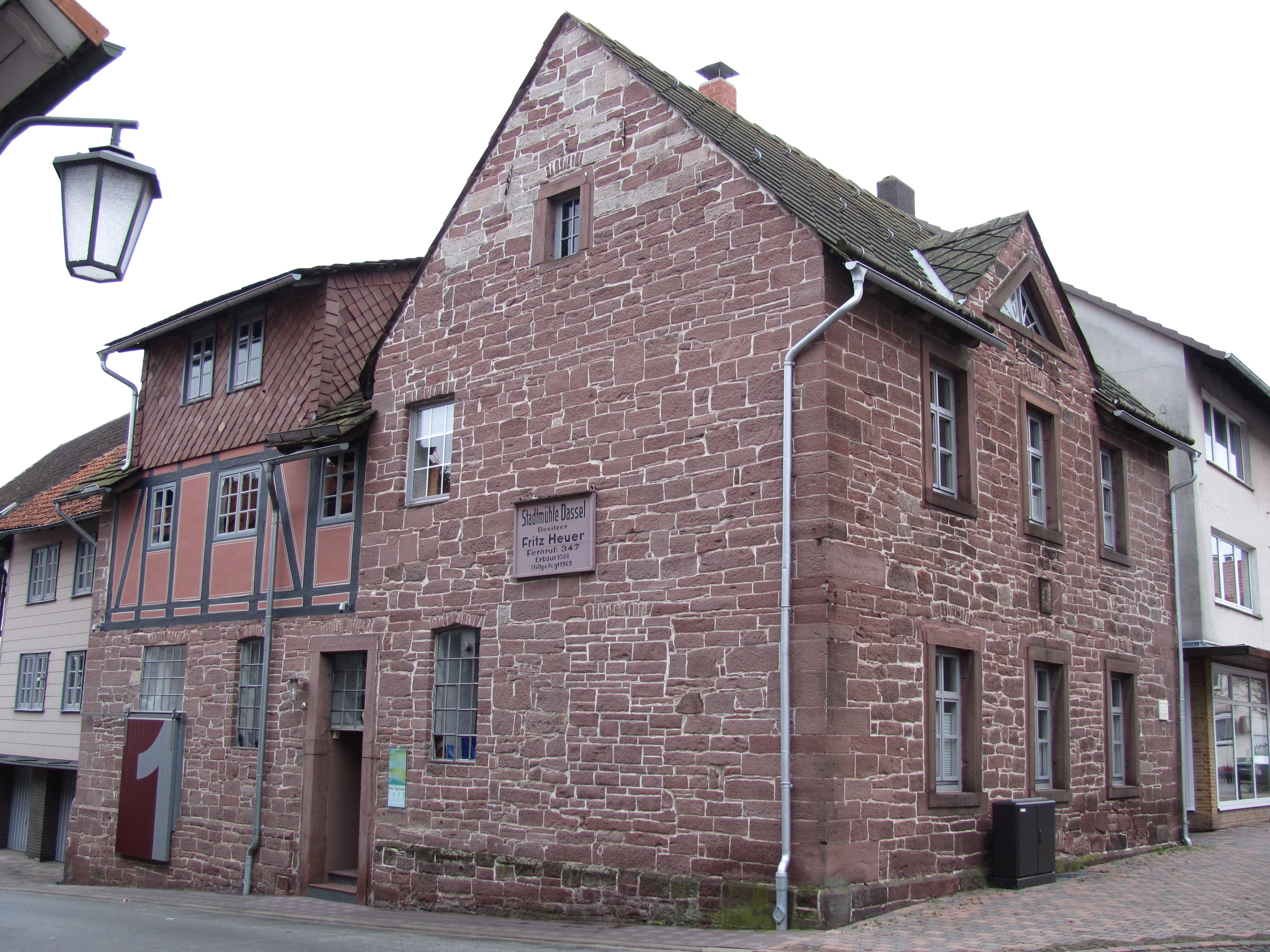 Former Mill, Dassel, Germany.